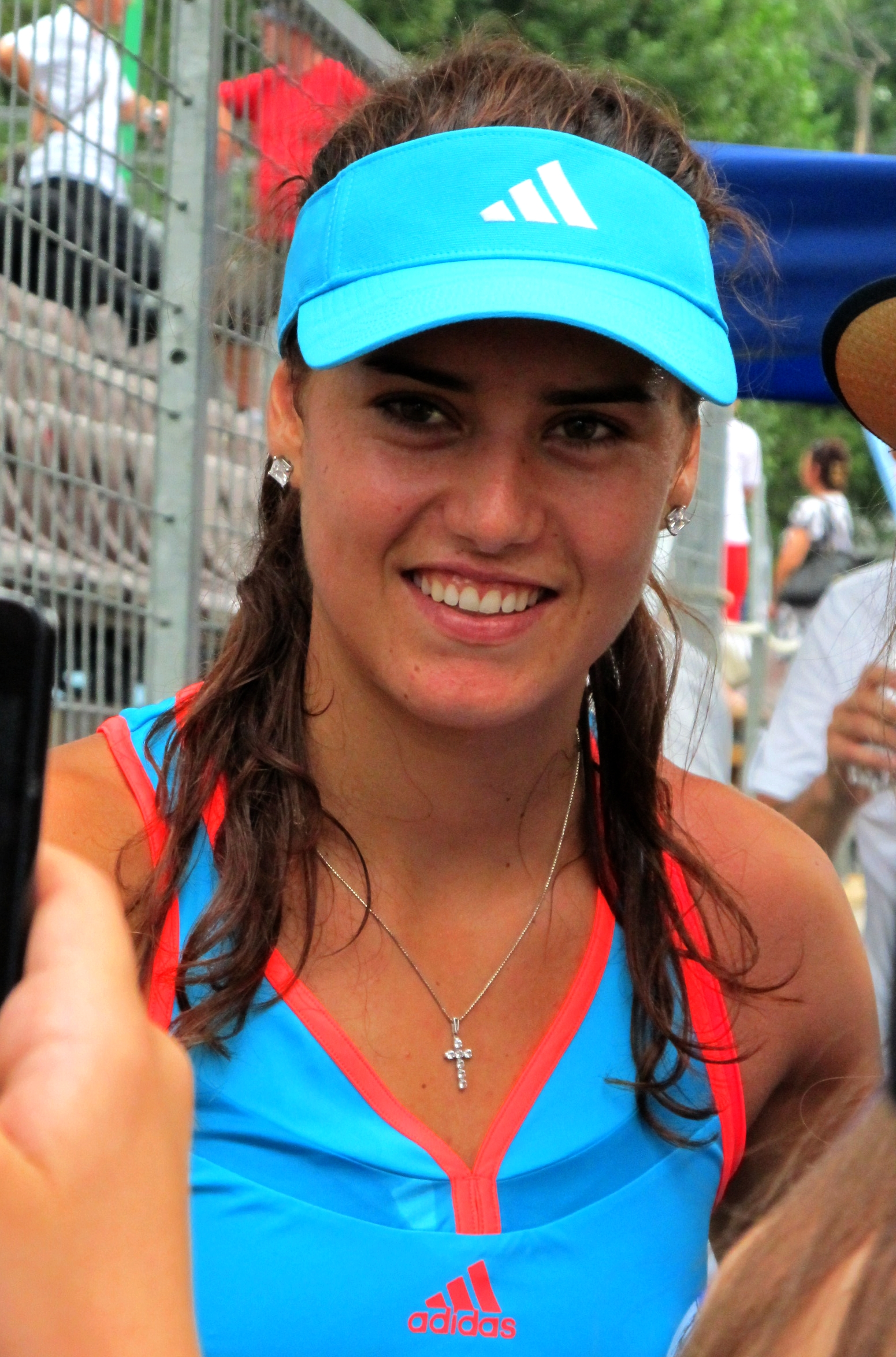 Sorana Cîrstea posing for a photo at the 2011 BCR Open Romania Ladies after her second round win over Mădălina Gojnea